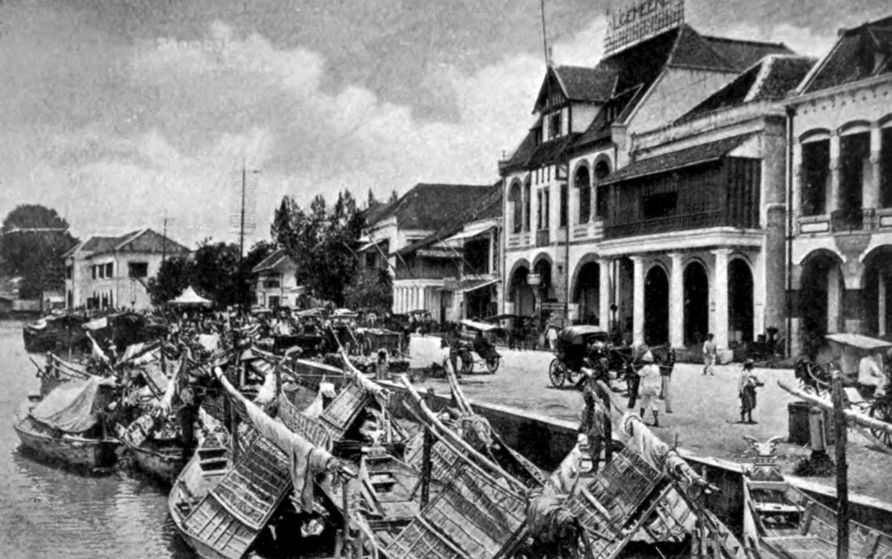 Native Boats, Willemskerke, Surabaya Cropped, resized and re-normalized to black and white from the plate facing p107 of 'Java, Sumatra and Other Islands of The Dutch East Indies' by A. Cabaton. (Translated to English with a preface by Bernard Mill.) Published by T. Fisher Unwin, 1911. Image from full text available at The Internet Archive.